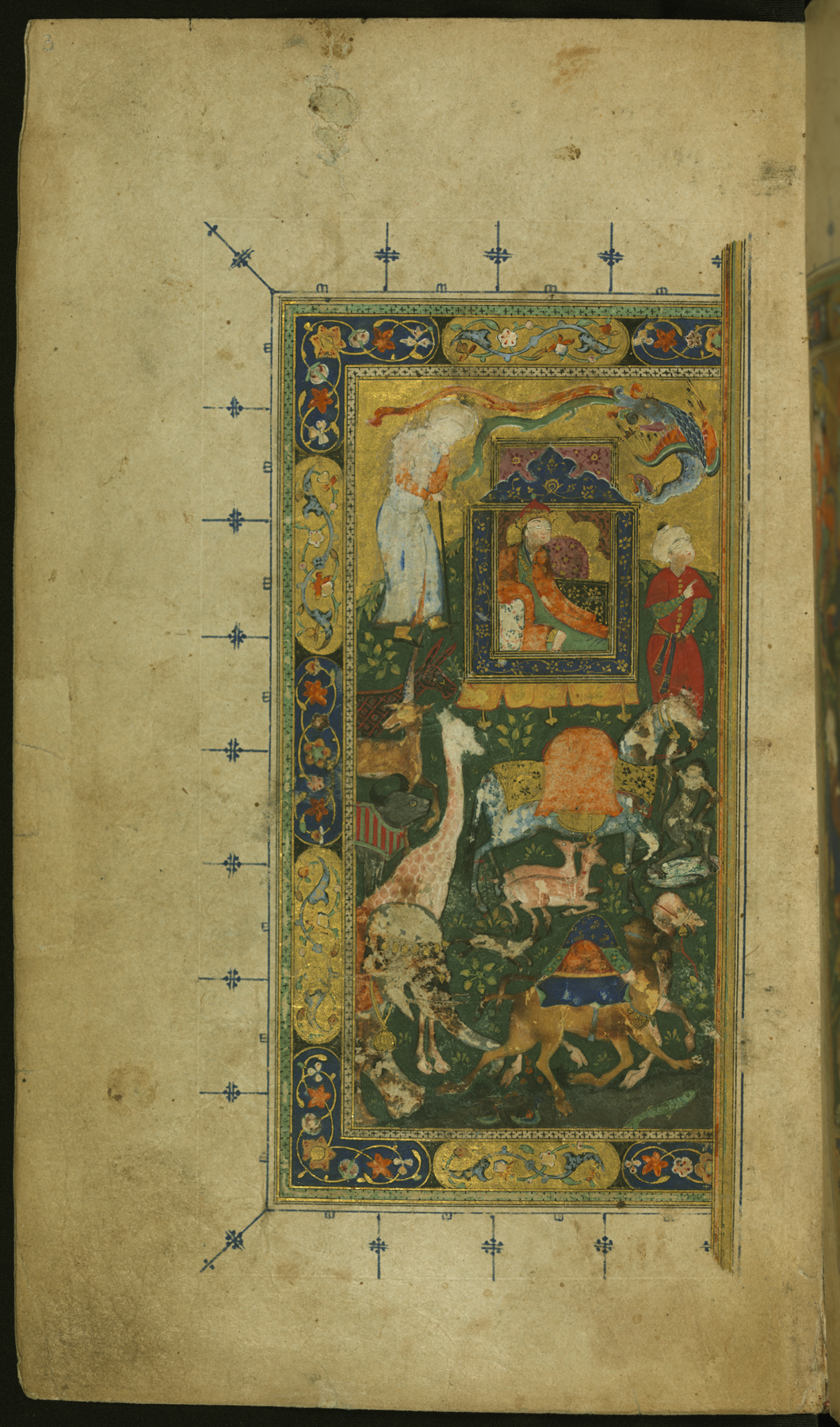 The left side of this double-page illustrated frontispiece from Walters manuscript W.631 depicts Queen Sheba (Bilqis) enthroned. She is surrounded by attendants and animals, both real and fantastic. Above her is a flying mythical bird (simurgh).